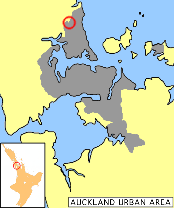 Location map of Albany, New Zealand